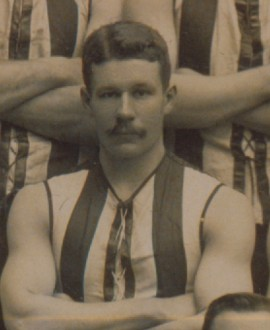 Photograph of Arthur Leach in 1901.